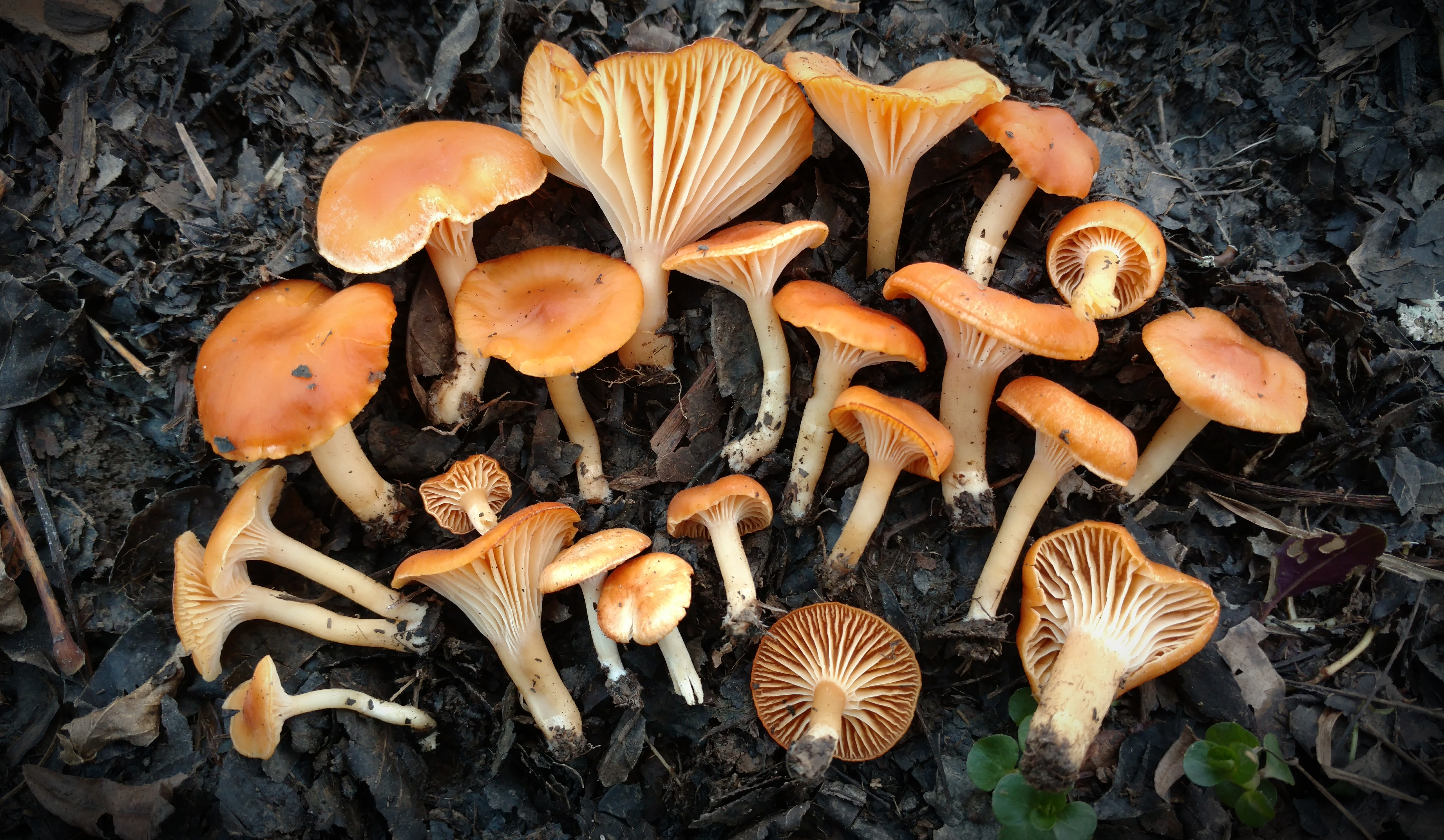 Cuphophyllus pratensis group Image location: Lady’s Bluff TVA Small Wild Area, Tennessee, USA Recognized by sight For more information about this, see the observation page at Mushroom Observer.